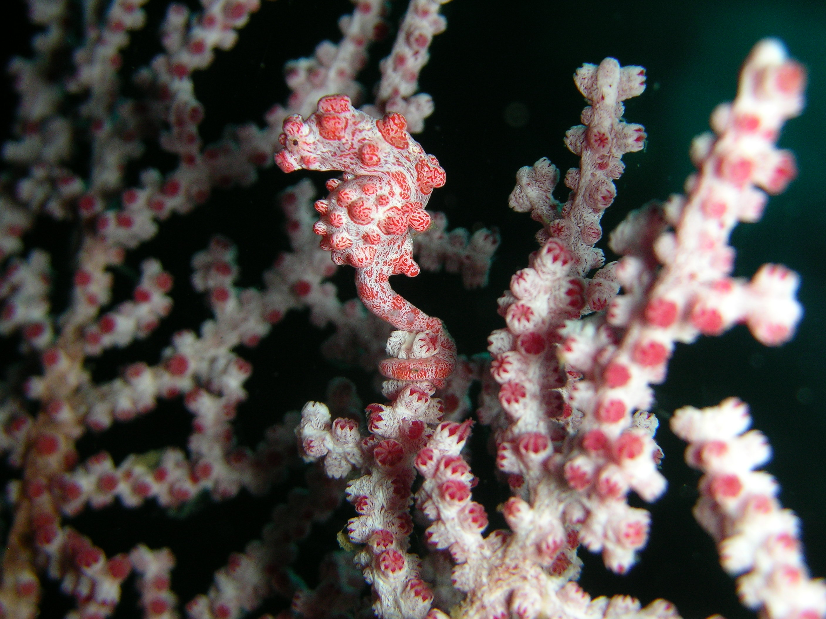 Pygmy Seahorse, Nudi Falls Lembeh Straits.